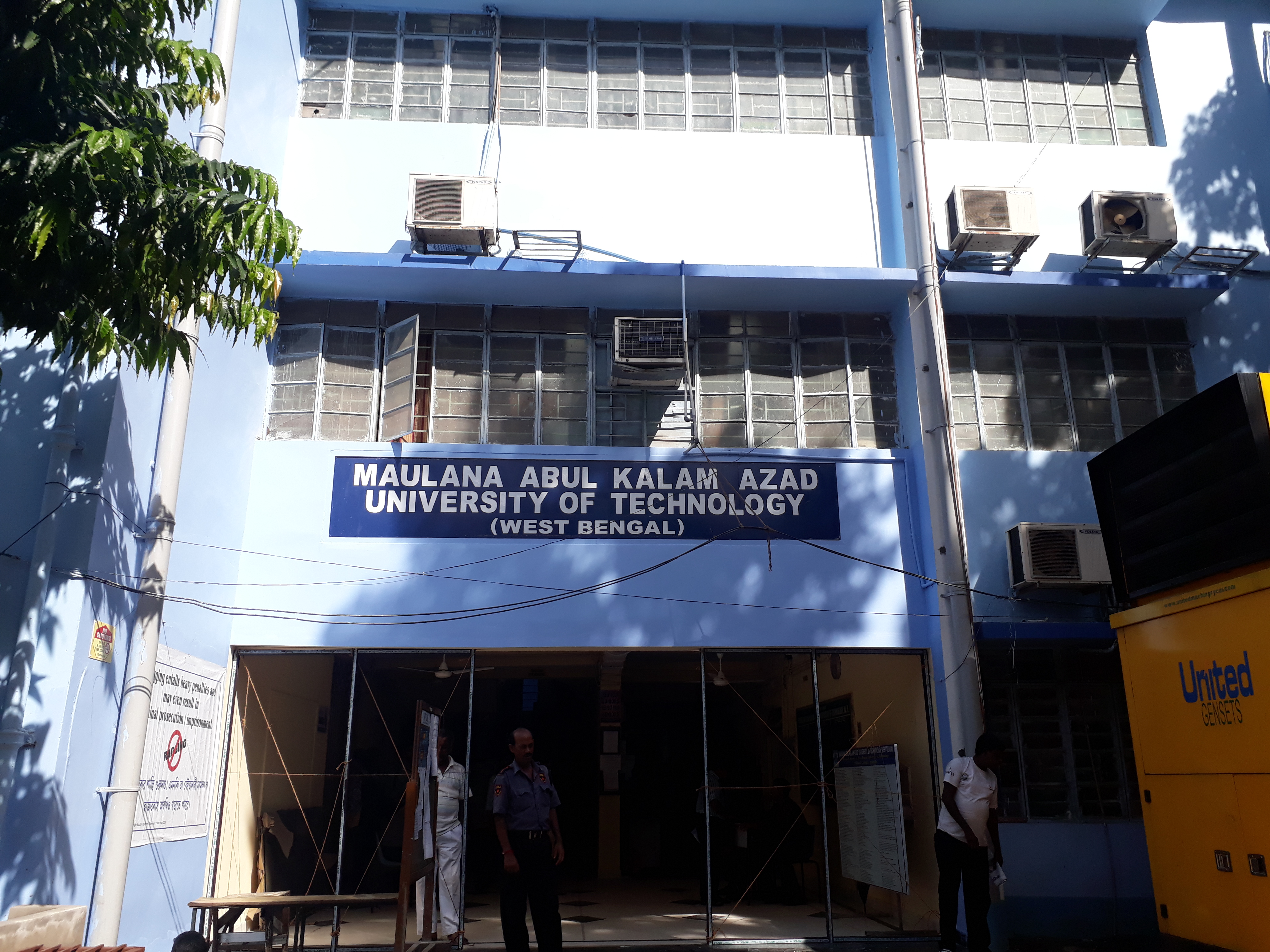 Moulana Abul Kalam Azad Technical University, Salt lake . kolkata